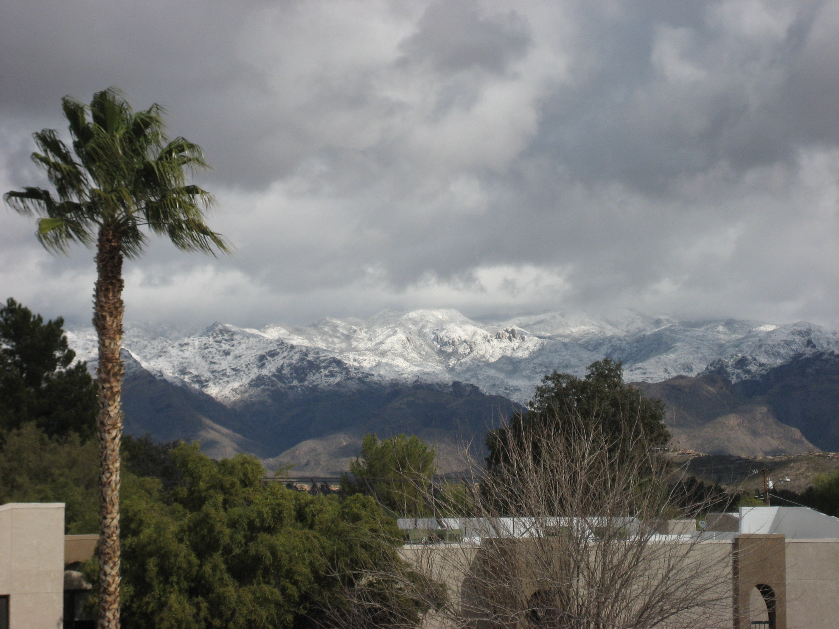 Snowy Santa Catalina Mountains, from the Catalina Foothills — in Pinal County, Arizona.